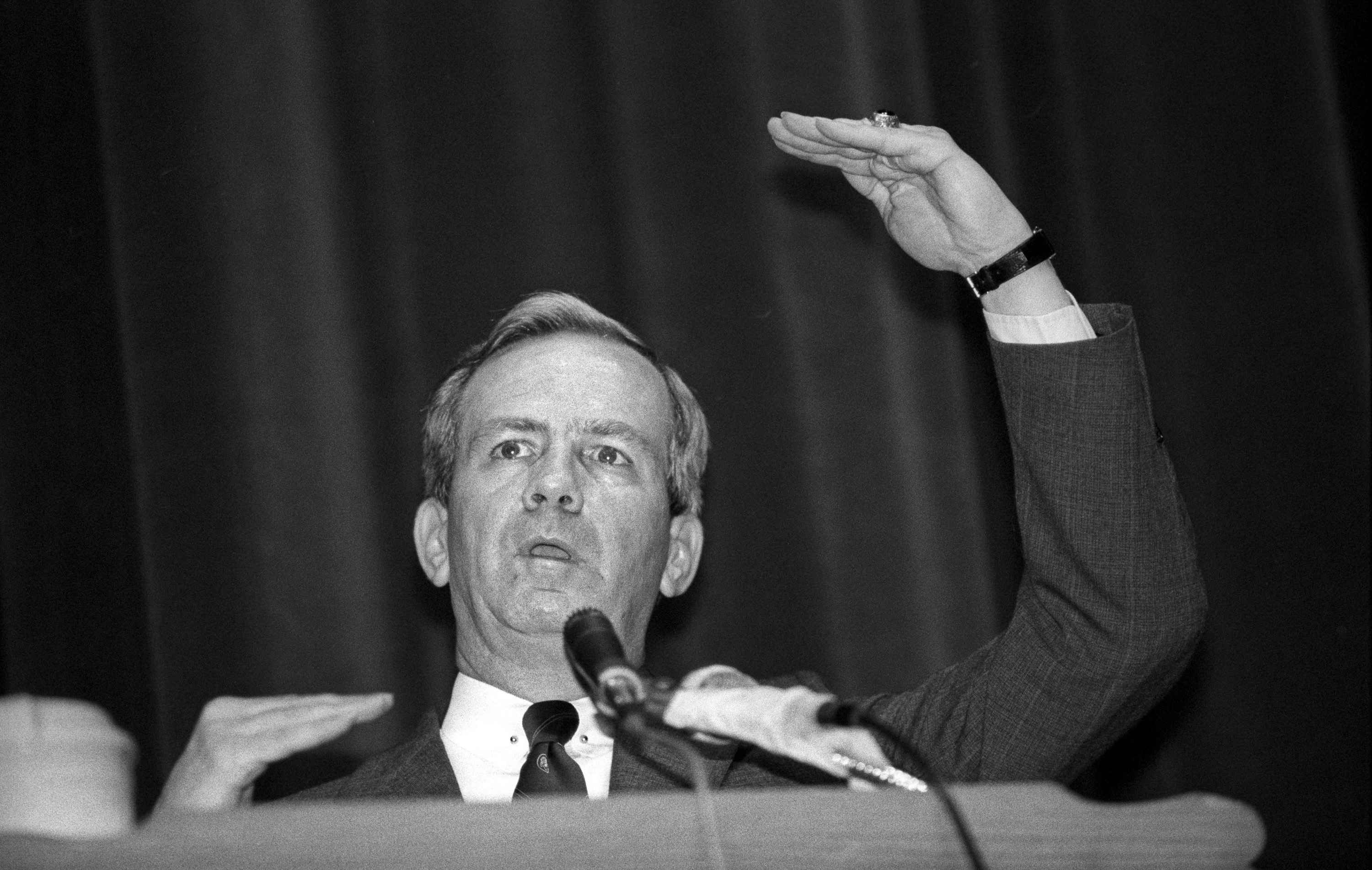 Robert McFarlane National Security Advisor gives a lecture in Ithaca, New York in April 1987. Black and white original.